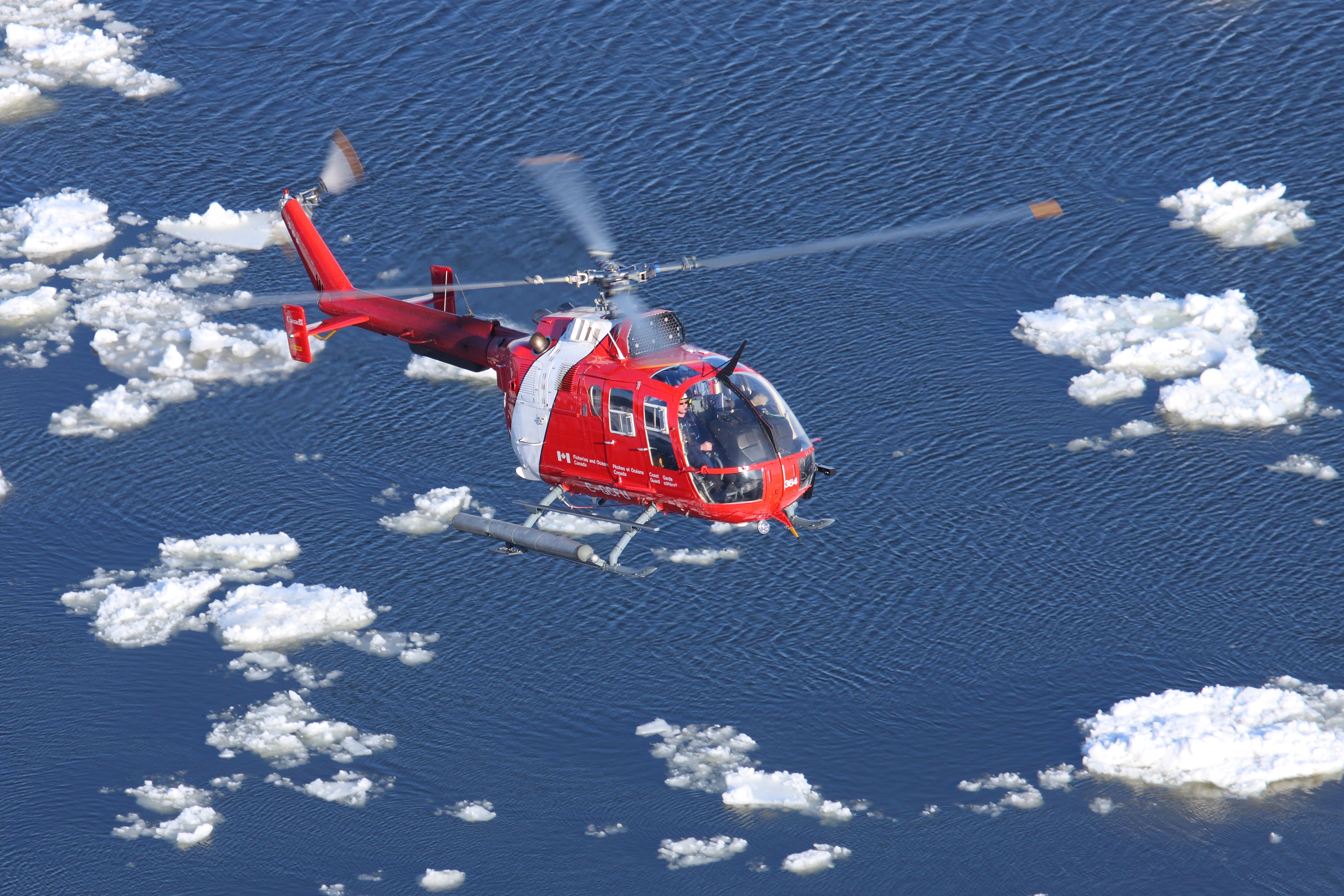 Canadian Coast Guard Messerschmitt-Bolkow-Blohm (BO-105-CBS) helicopter over Saint Lawrence River between Quebec City and Lévis.